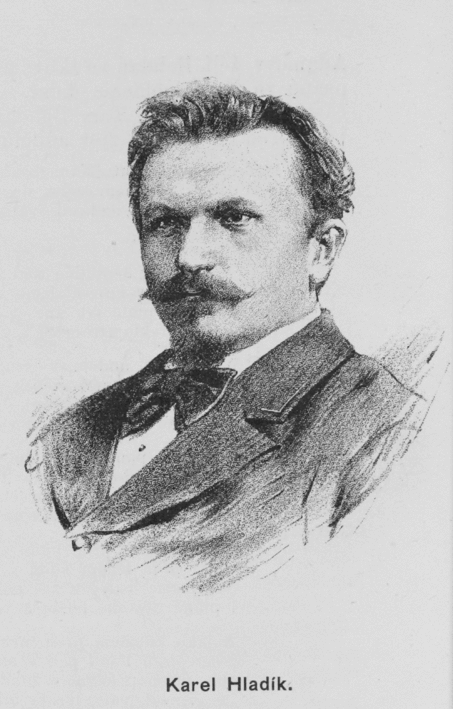 Portrait of Karel Hladík (1831-1895), Czech railway expert and politician